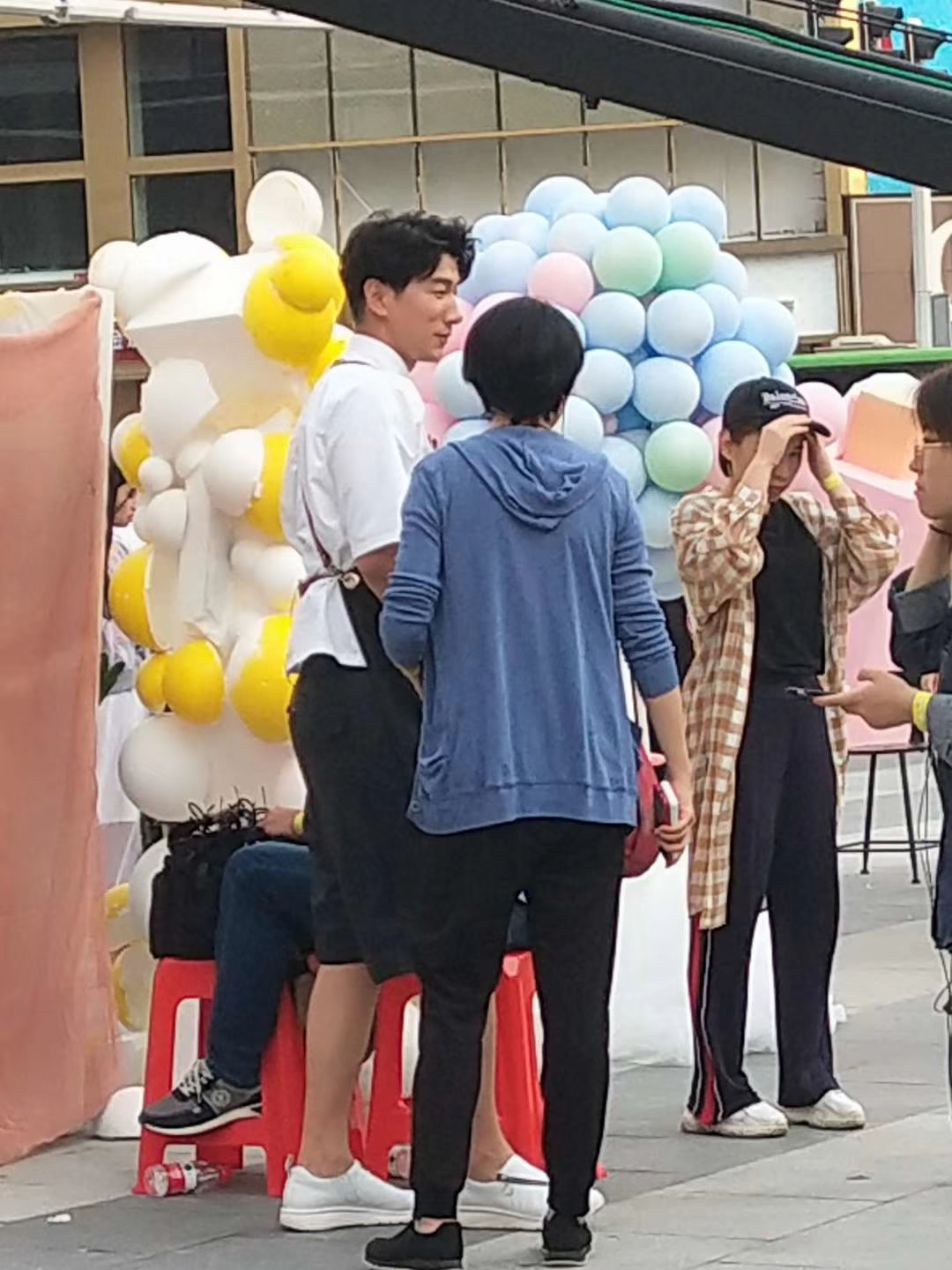 Zhang Liang in the Commercial Pedestrian Street, Changsha, Hunan, China, 27 May 2018.